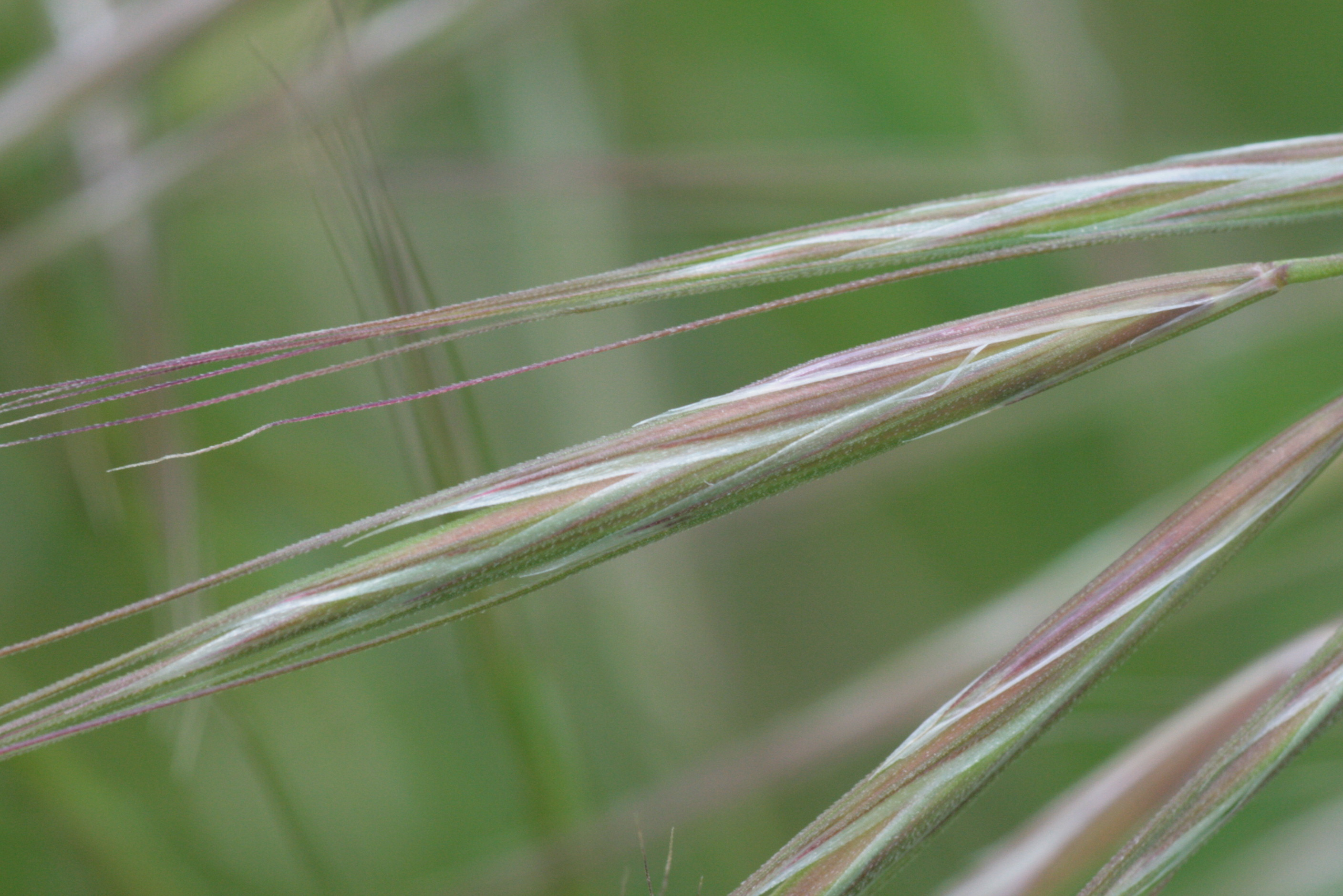 Bromus sterilis